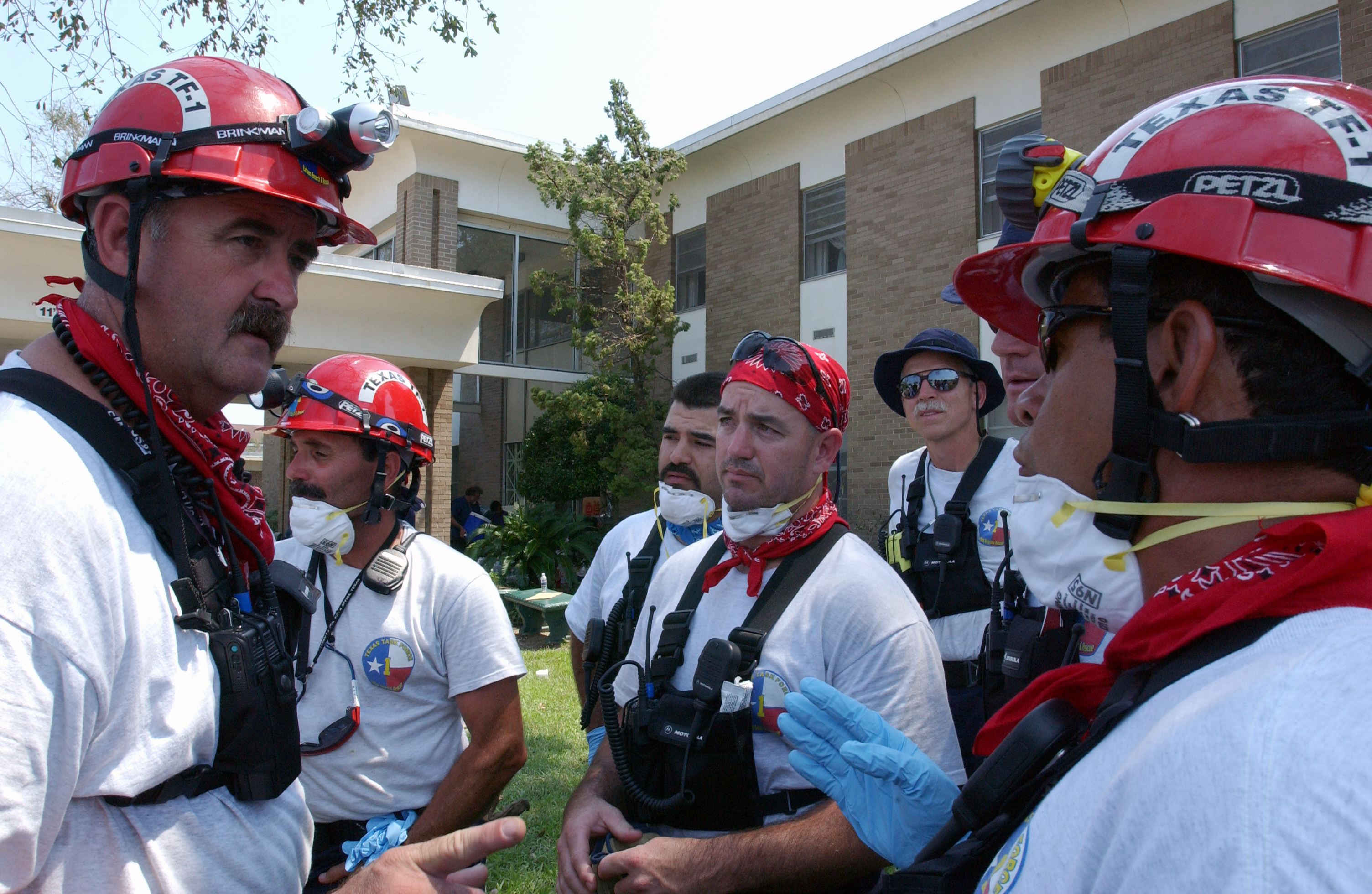 New Orleans, LA, September 2, 2005 -- FEMA Urban Search and Rescue discuss search operations while out in a neighborhood impacted by Hurricane Katrina. Jocelyn Augustino/FEMA